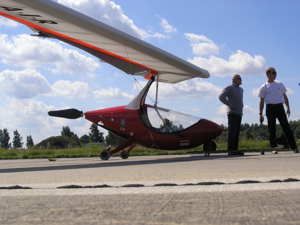 A rigid hang glider wing equipped with a motorized pod, constructed by Helmut Großklaus. Date: august 2005 Place: Altes Lager, Germany Wing: Atos VR Pod: Silent Racer P Photographer: Kai-Martin Knaak Copyright under GFDL granted by Kai-Martin Knaak (Wiki Commons category: "Air sports")